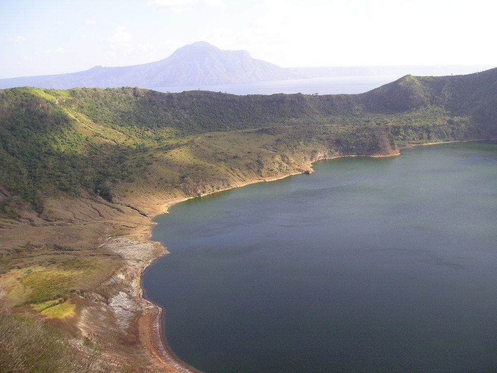 Taal Volcano (Batangas, Philippines).